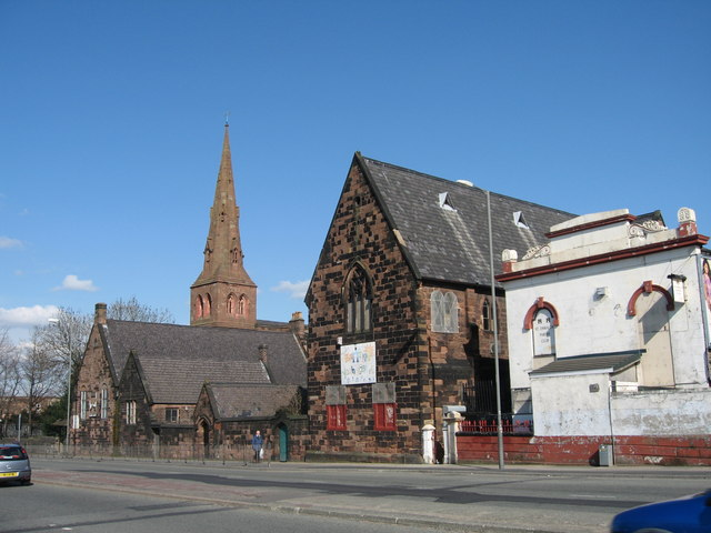 St Oswald's Parochial Centre